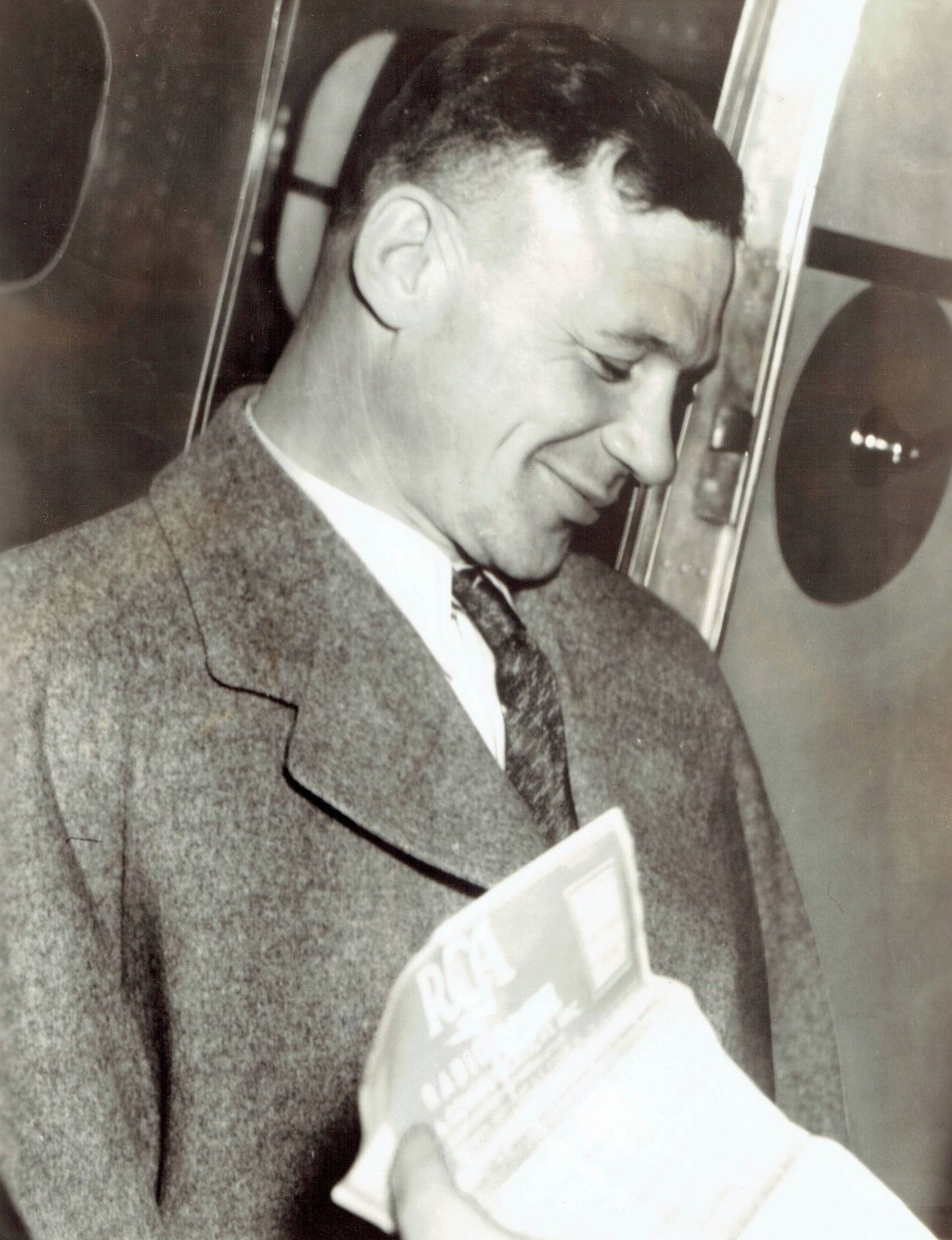 1939 Wire Photo Russian test pilot Vladimir Kokkinaki arrives in New York City